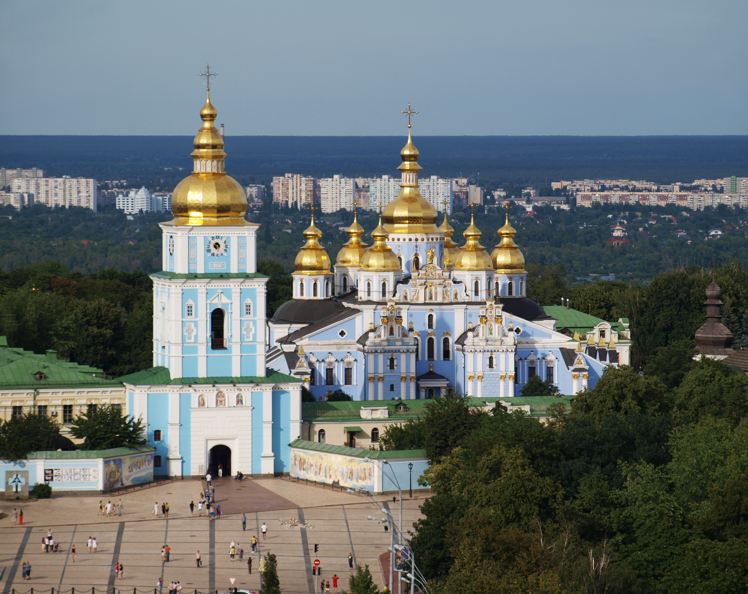 St. Michael's cathedral in Kiev, Ukraine. View from St. Sophia bell tower.